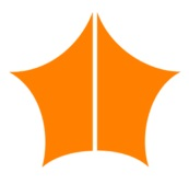 Kitaaiki Nagano chapter